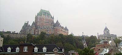 A view of Quebec City, including the Château Frontenac and funicular, taken from the Lévis ferry. Personal snapshot by Montréalais, September 2002.